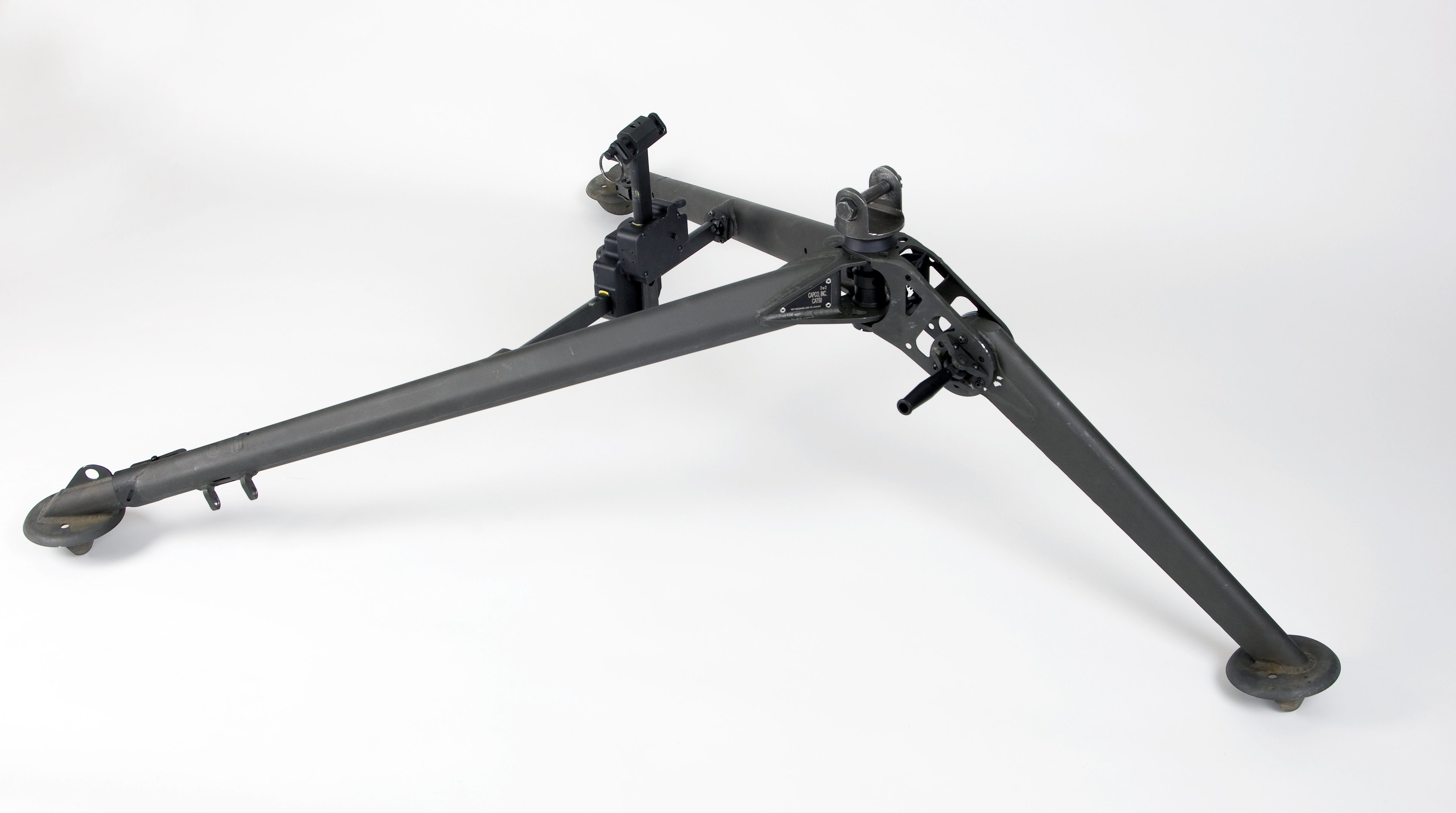 Prototype XM205 tripod